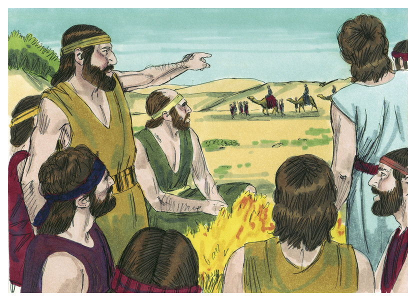 Biblical illustration of Book of Genesis Chapter 37